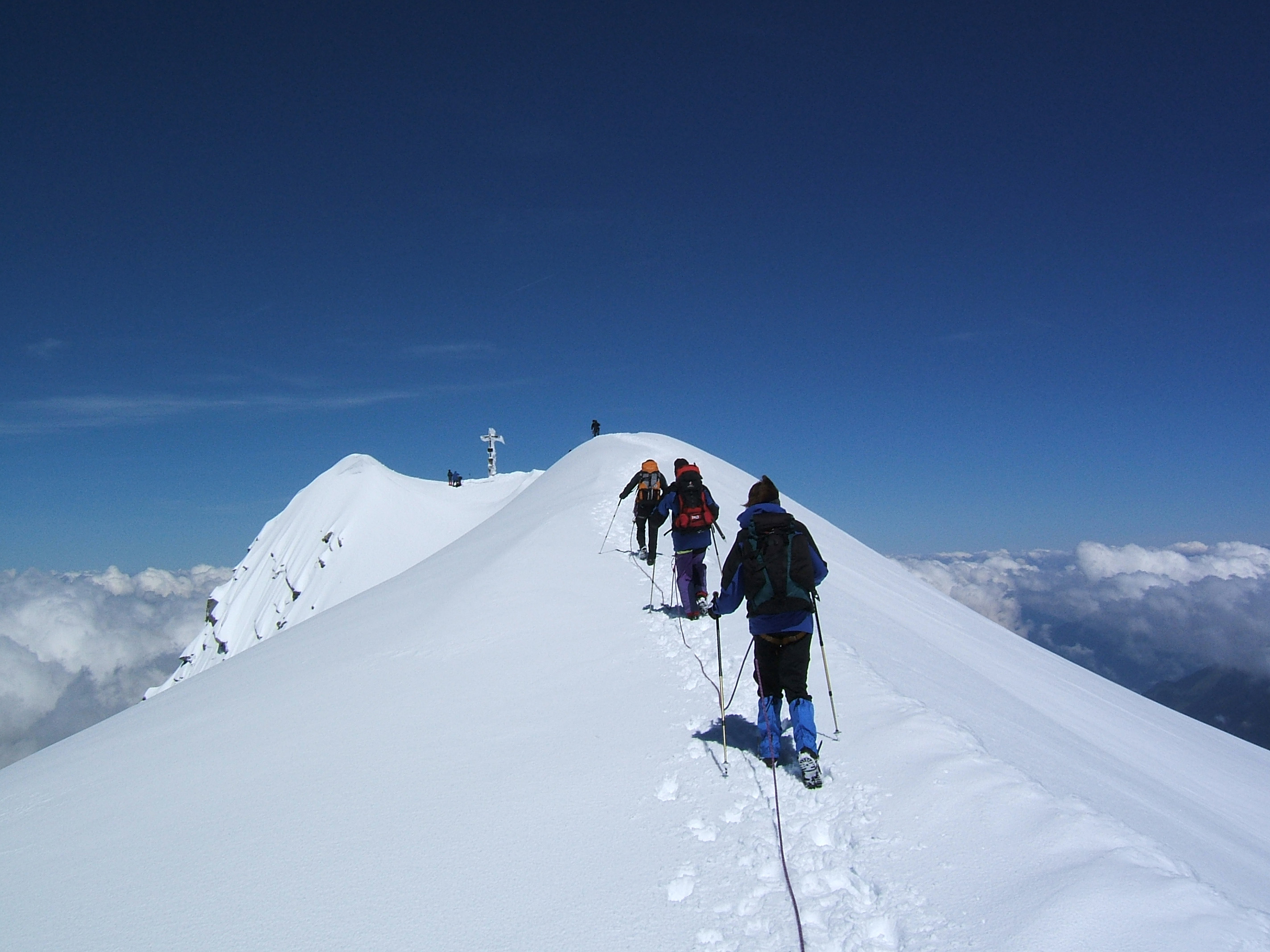 Rope team at ridge near summit of Groß-Venediger